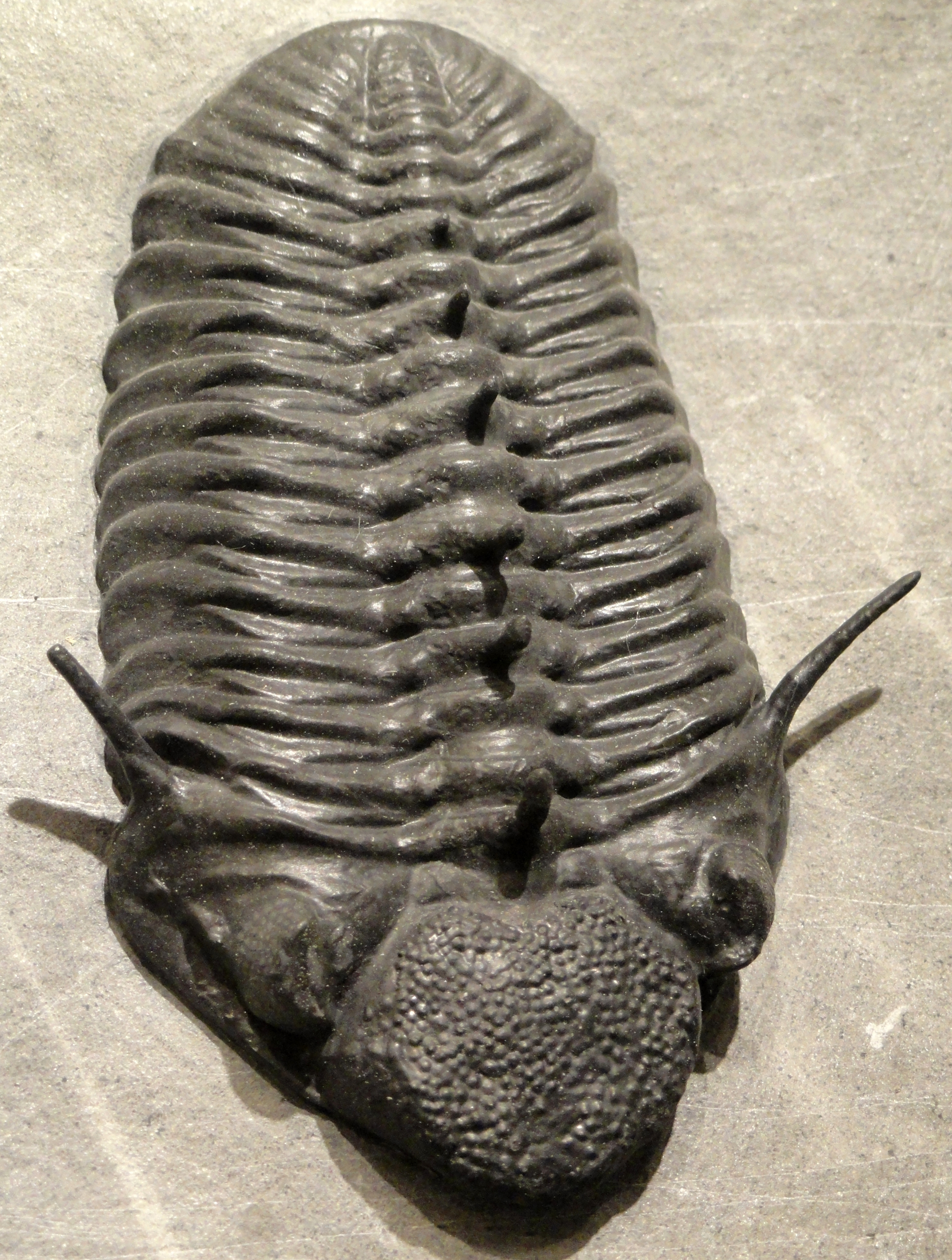 Exhibit in the Houston Museum of Natural Science, Houston, Texas, USA.